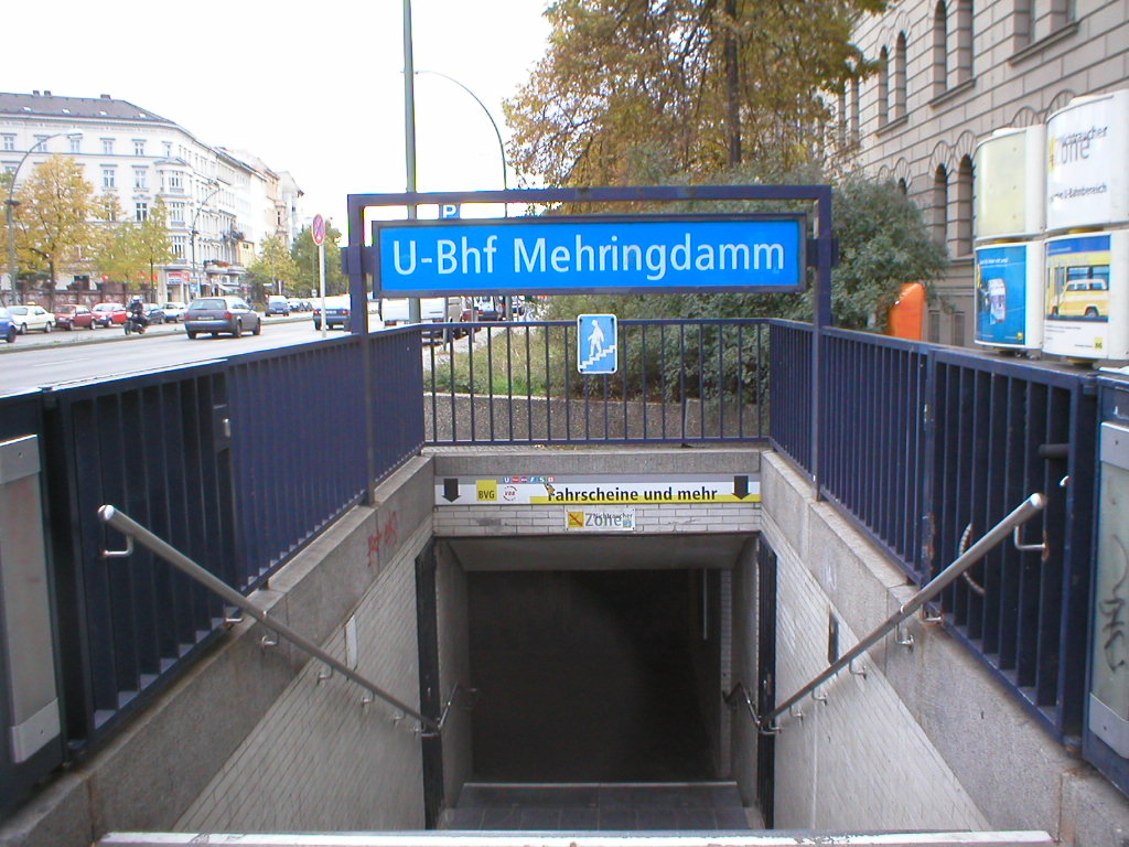 Entrance to Mehringdamm underground station; Berlin, Germany